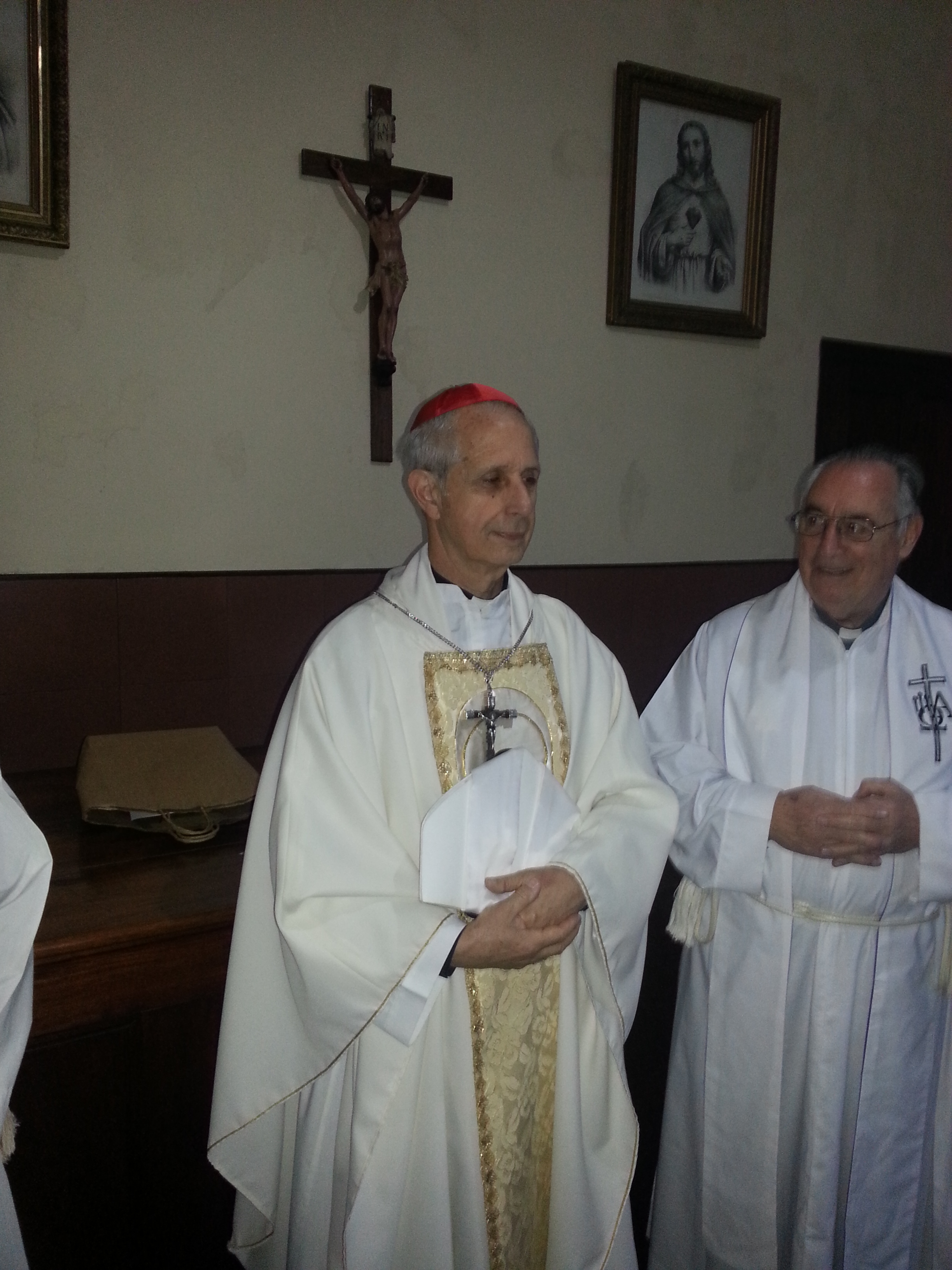 Cardinal Mario Aurelio Poli, Archbishop of Buenos Aires. Photo taken at the Monasterio Santa Teresa de Jesús (Buenos Aires).